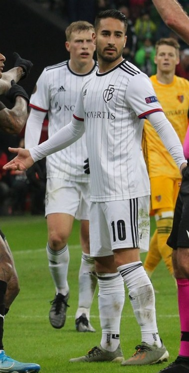 Samuele Campo with FC Basel in an Europa League game against FC Krasnodar.